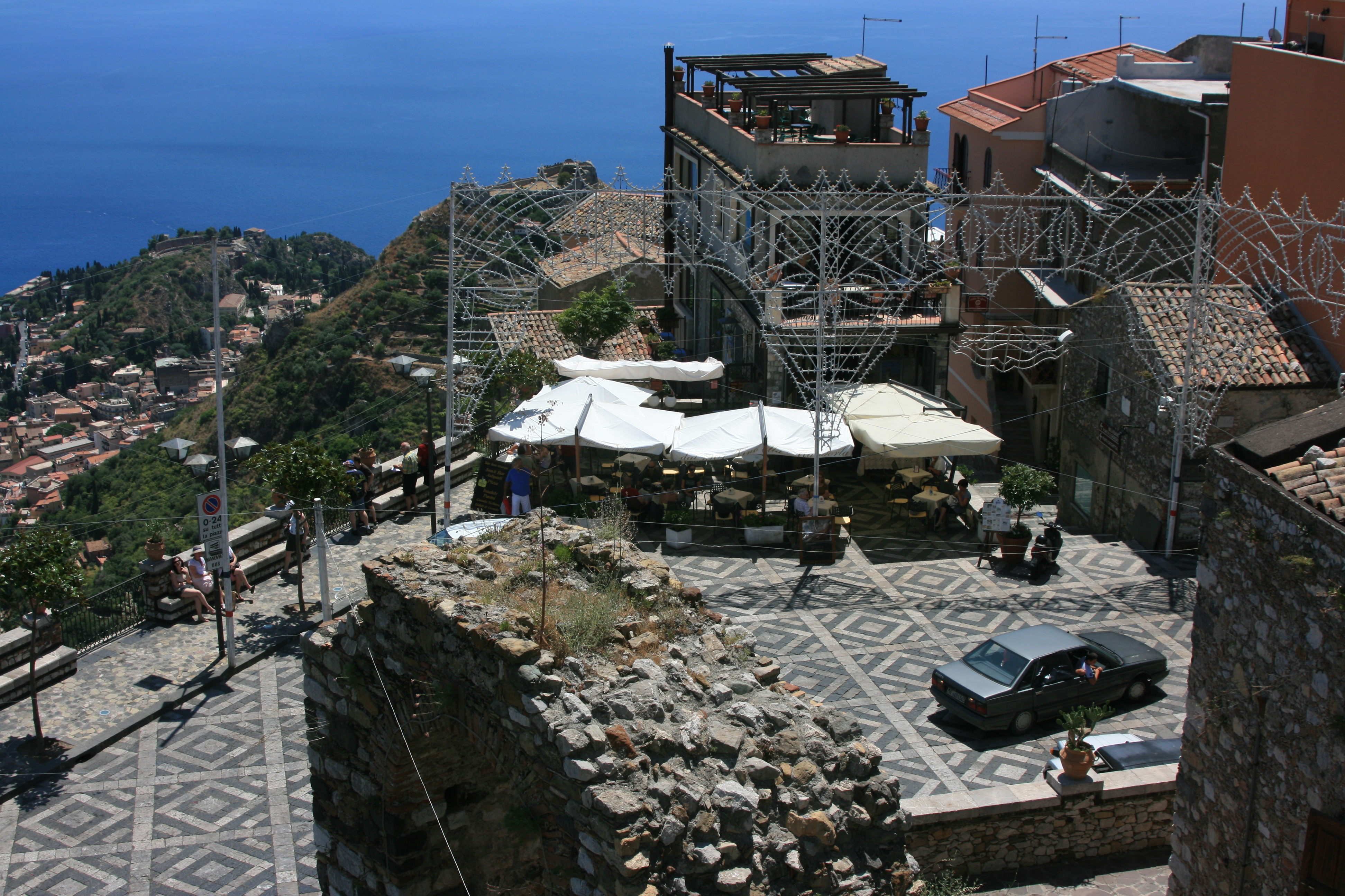 castelmola, view square